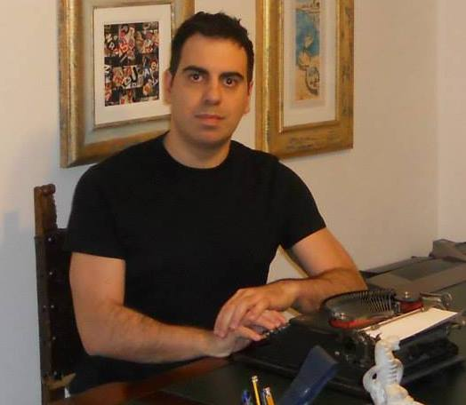 The author Gianluca Piredda